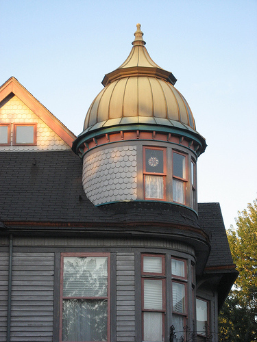 Residential Architectural Example in Old Northside Historic District, Indianapolis, Indiana